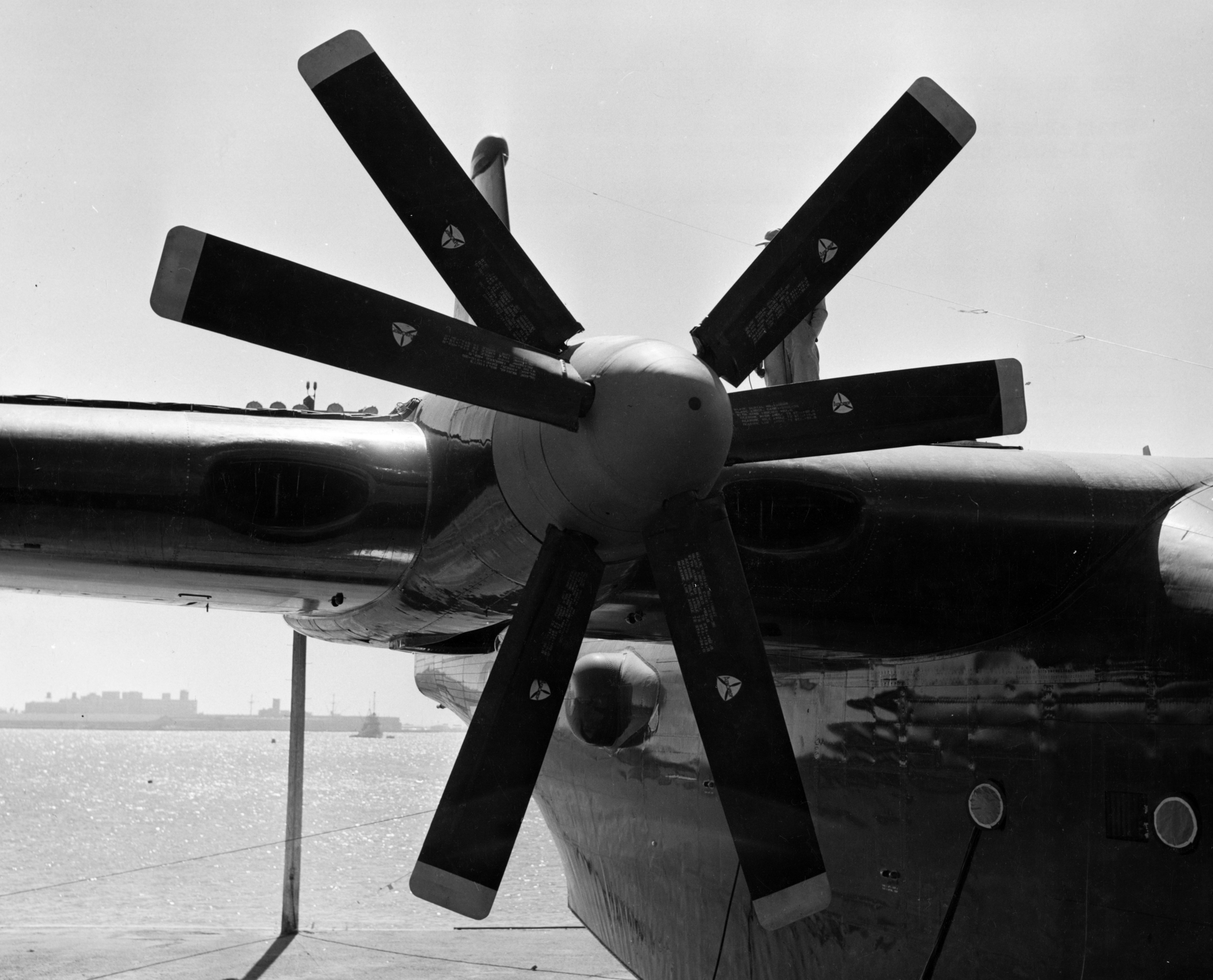 Front view of a Allison T40 turbo-prop engine on a Convair XP5Y-1